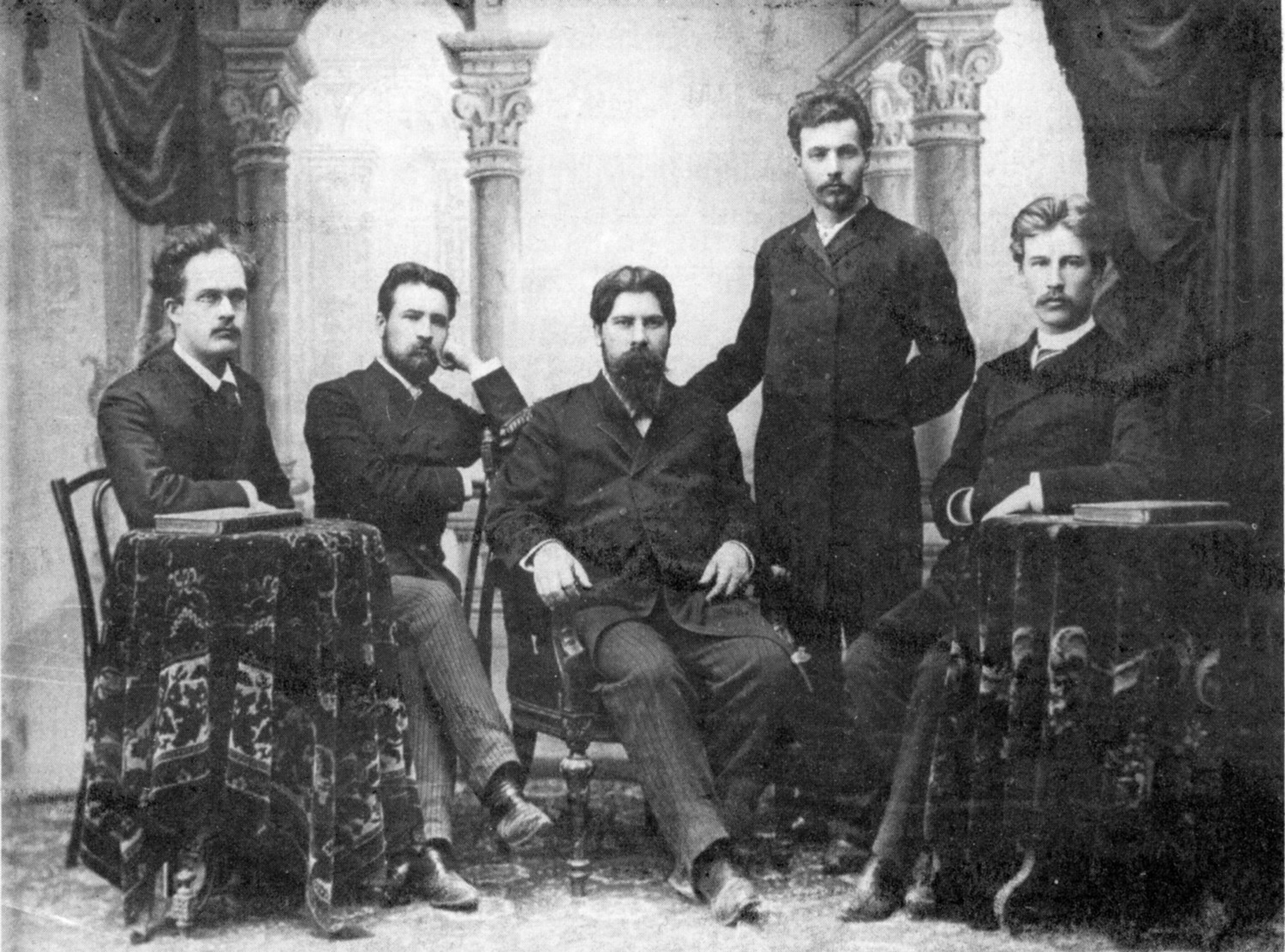 Staff of Psychiatry Chair of Kazan University. Kolotinskiy S.D., Vorotynskiy B.I., Bekhterev V.M., Vasiliev V.I., Ostankov P.A.